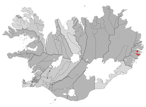 Based on Municipalities of Iceland.png.